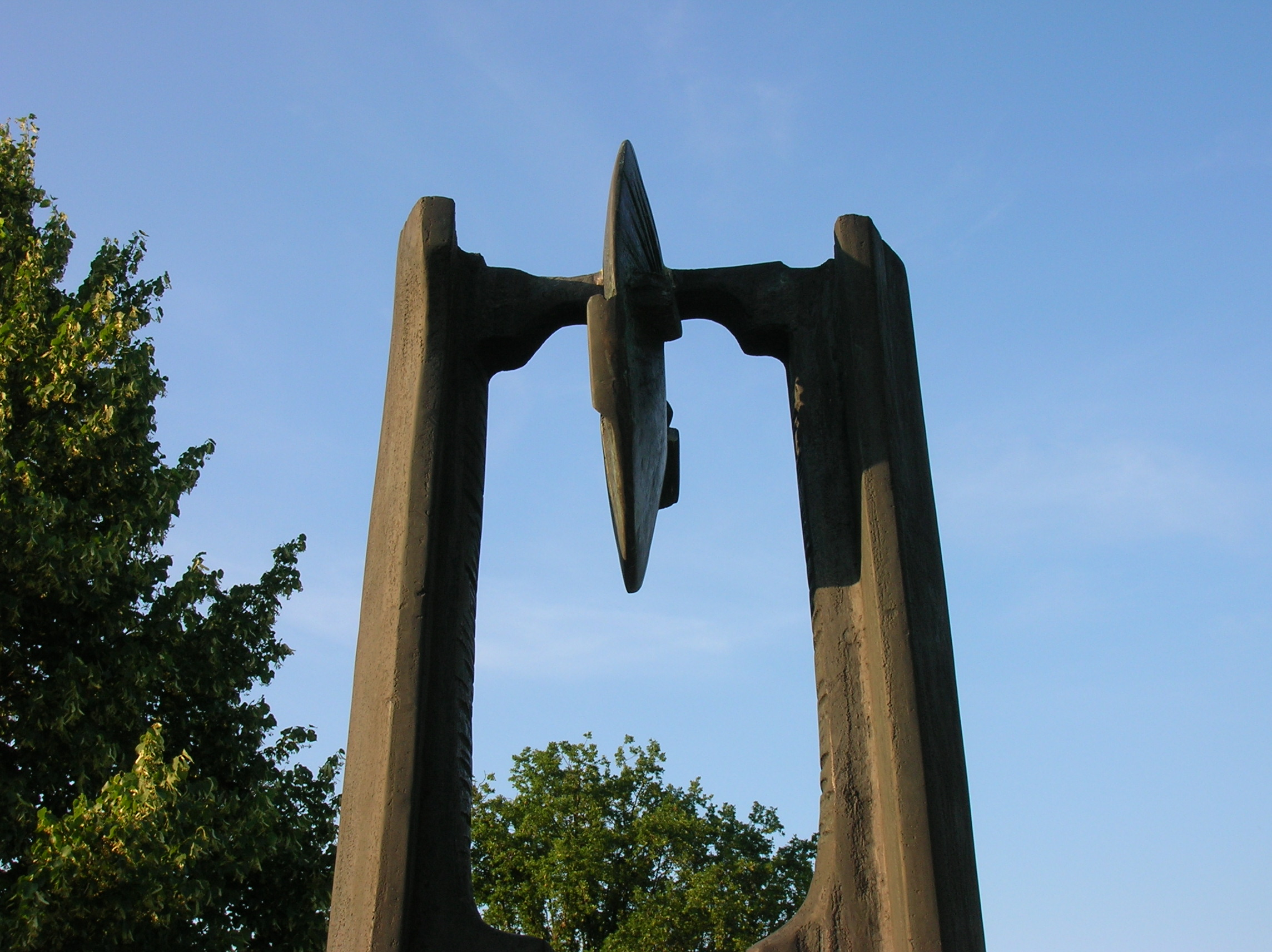 Memorial/sculpture in Sint Anthonis/The Netherlands